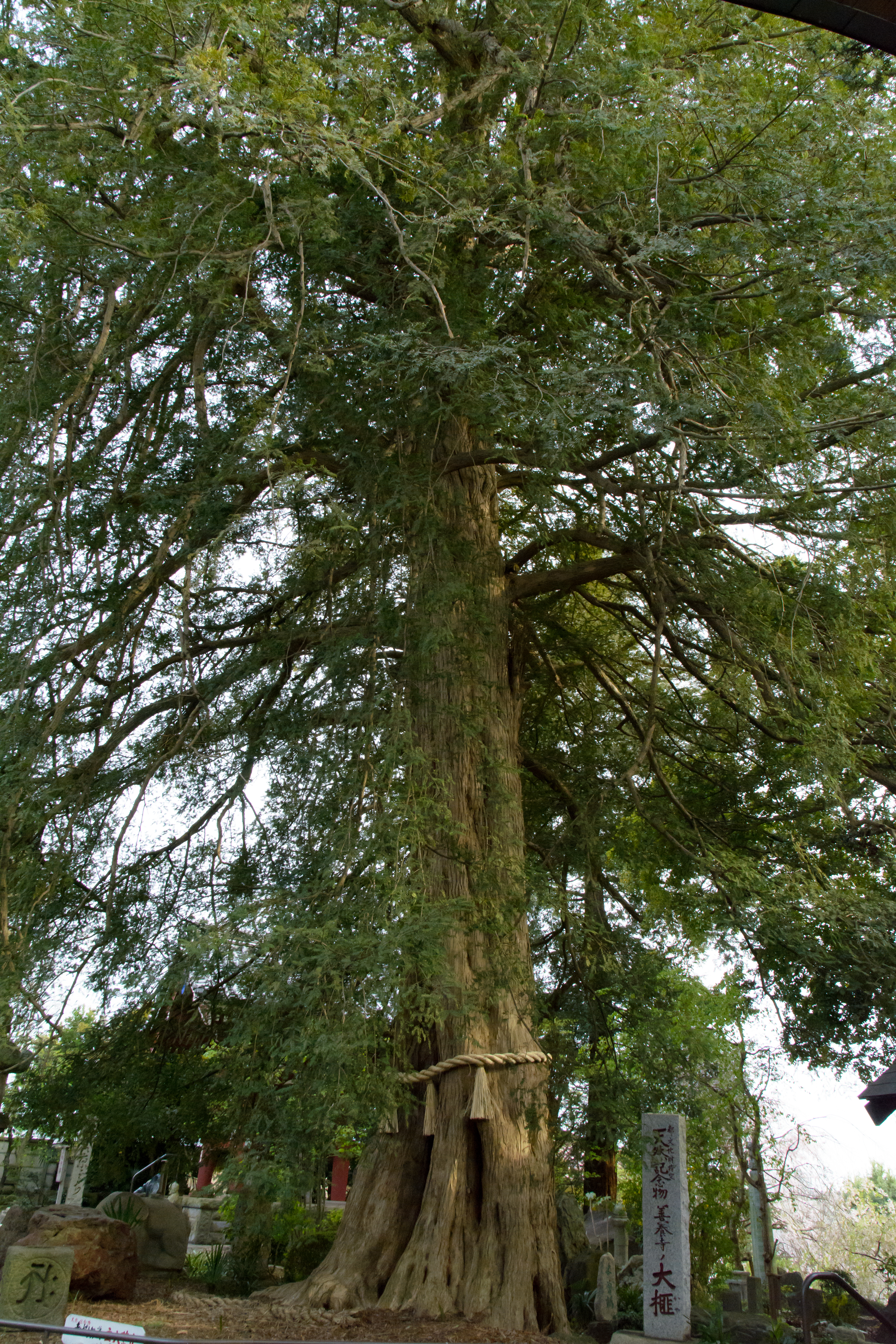 The Japanese nutmeg in Zenyōmitsu-ji